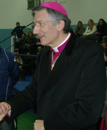 Immagine del vescovo di La Spezia Moraglia a un incontro.